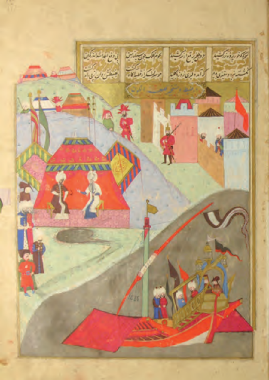 The conquest of Dukagjin castle in Dalmatia. Şehnāme-i Selīm ān, Istanbul, ca. 1571–81, Topkapı Palace Museum Library, A. 3595, fol. 117a. (